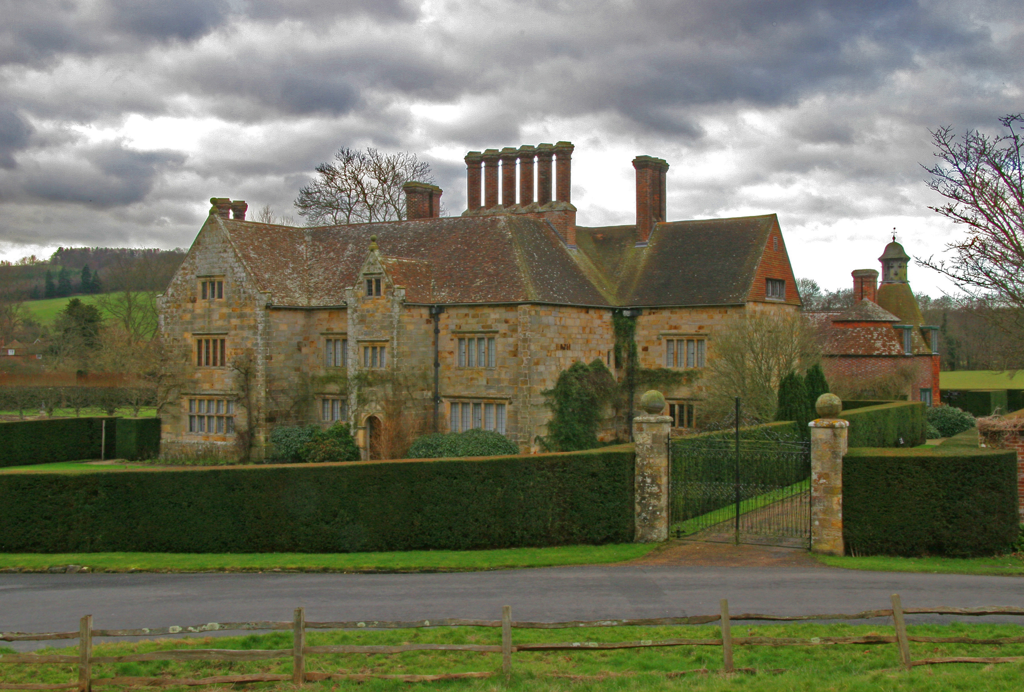 Bateman's was built around 1634. Rudyard Kipling bought Bateman's in 1902. He and his American wife, Carrie, had discovered the house two years earlier but had been too slow in deciding to buy it and it was let before they could close the deal. When the house came on the market again in 1902, they had no hesitation and bought it along with the surrounding buildings, the mill and 33 acres for £9,300. It had no bathroom, no running water upstairs and no electricity but Kipling loved it. Rudyard Kipling died in 1936 and Carrie continued to live at Bateman's until her death in 1939. I won a wineglass on eBay to replace one that was broken. The seller lives just off my route to visit my mother. Near his house I saw a sign to Bateman's. It was closed. I must go back whan it is open...